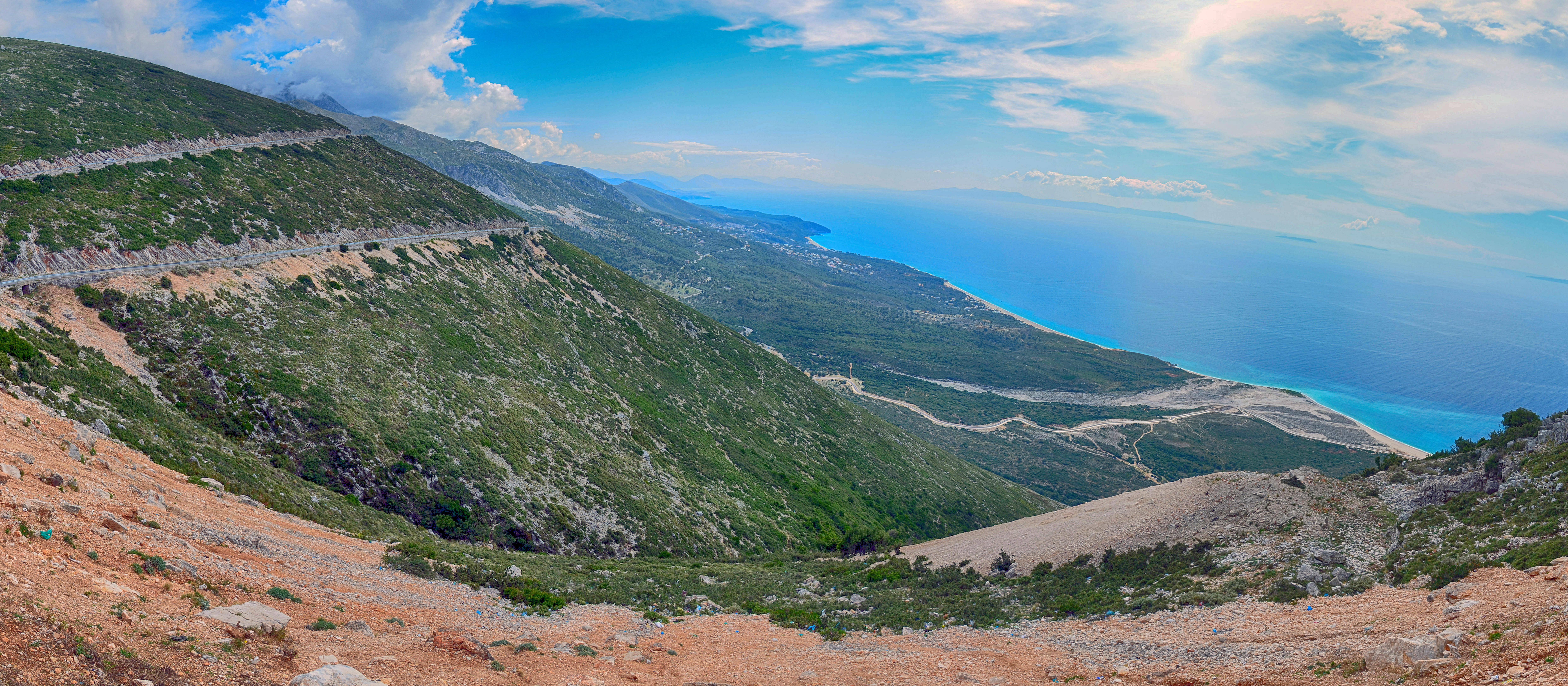 The Albanian Riviera viewed from the Llogara Pass